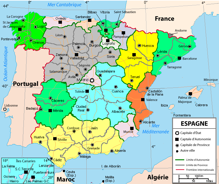 translation of spanish map in french language